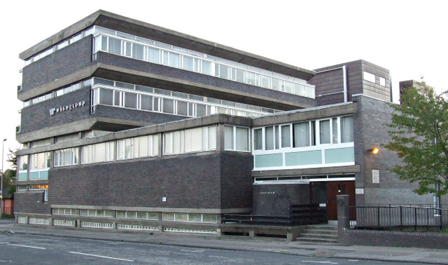 Former Our Lady & St Francis Secondary School